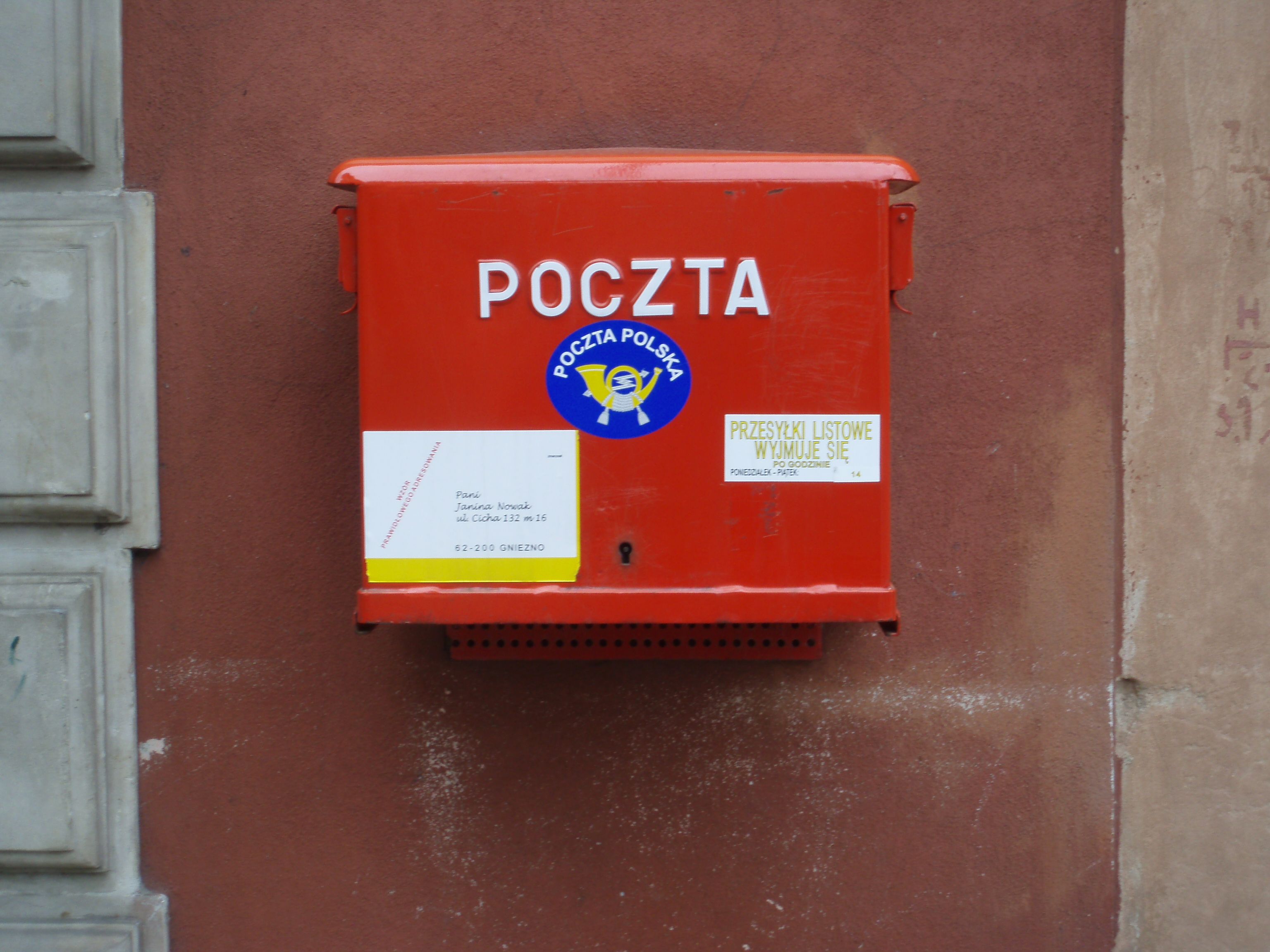 Post box in Warsaw, Poland.